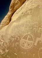 Petroglyphs in Bryce Canyon National Park, Utah, USA